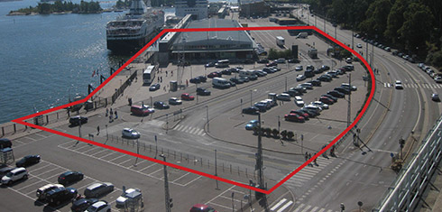 Proposed site of Guggenheim Helsinki Museum (2014 proposal). The site is located on the southwestern side of South Harbour, Finland